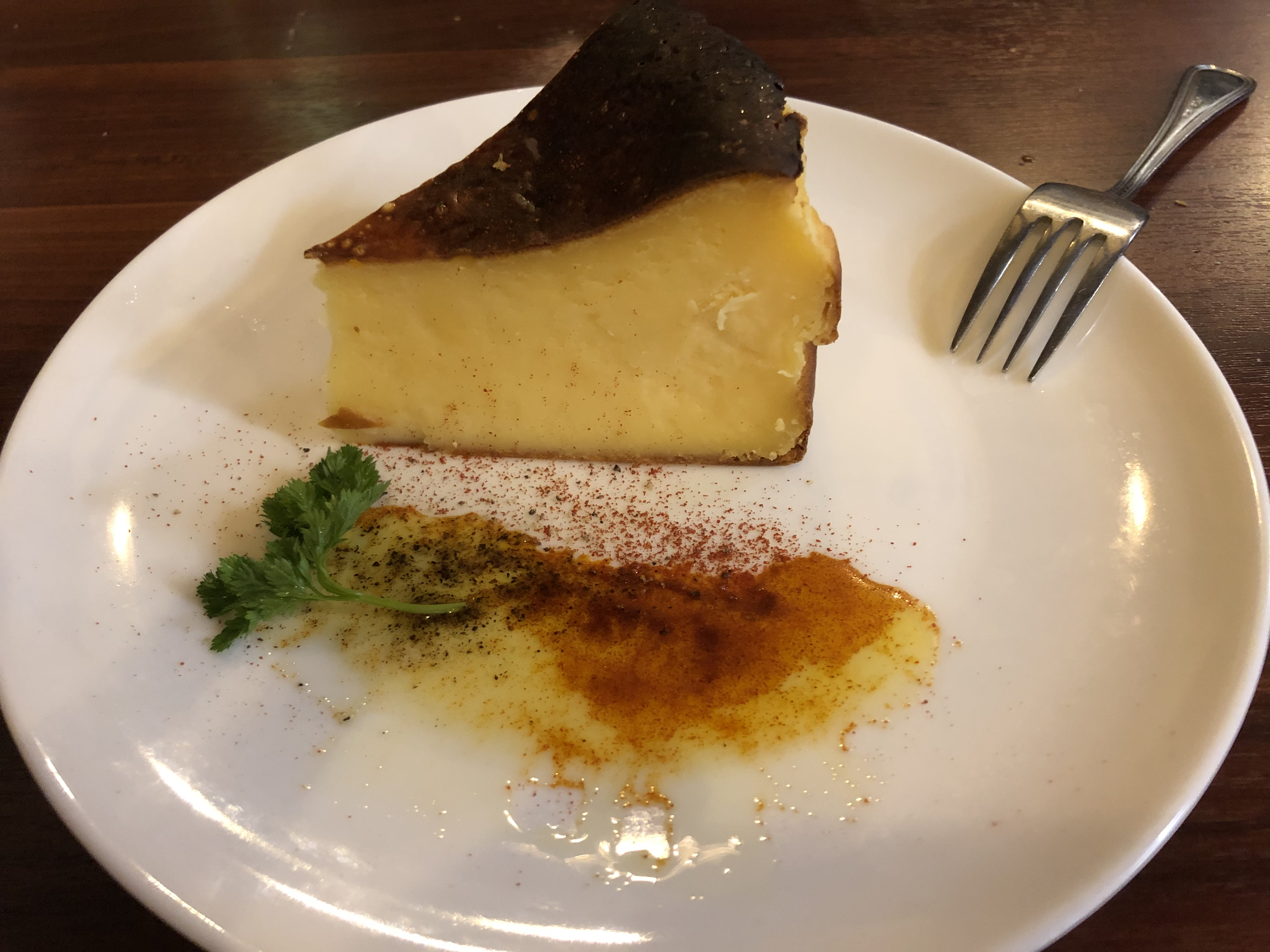 A piece of Basque-style cheesecake in Pepito, Tokyo